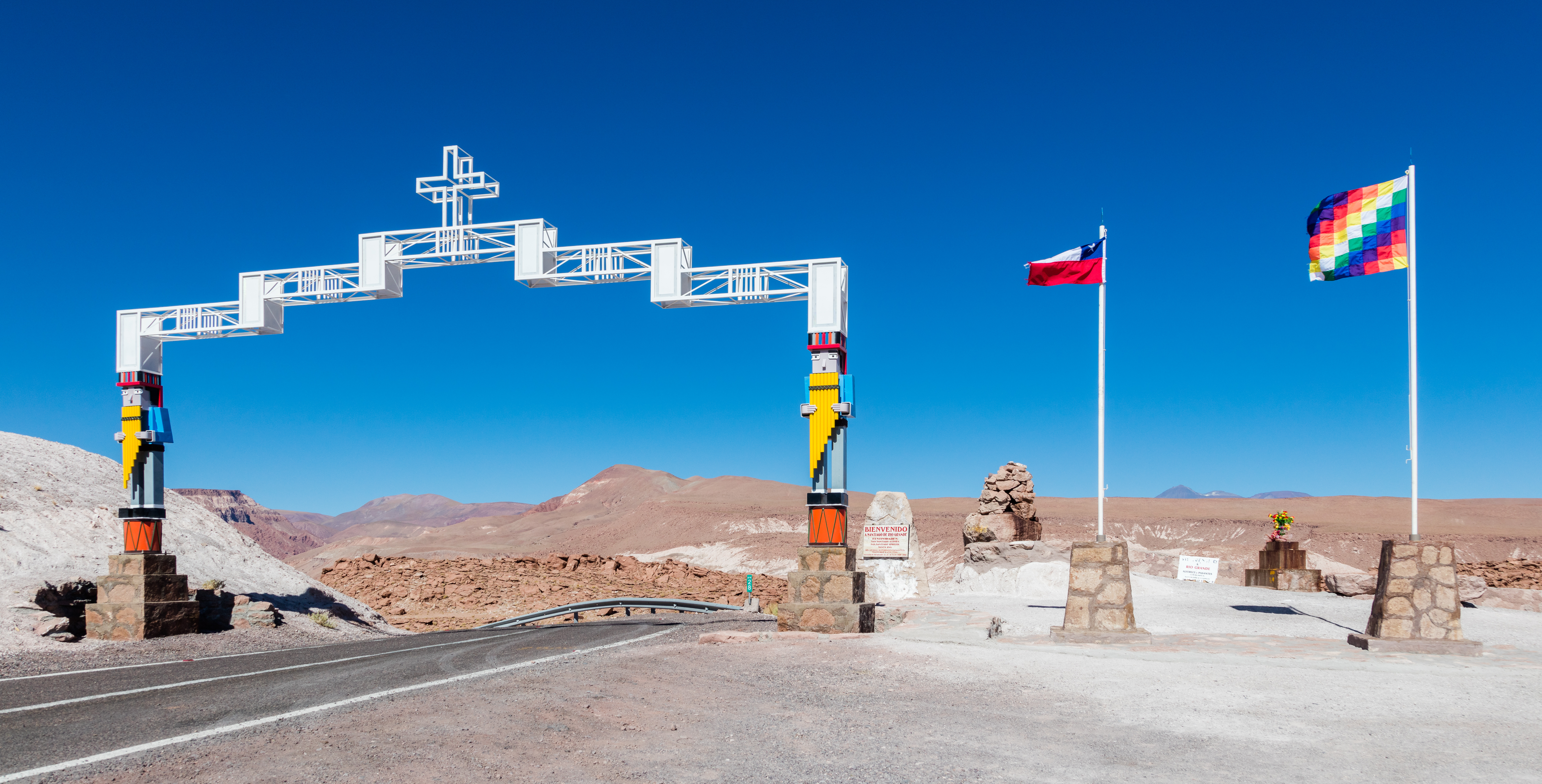 Gate to Río Grande, San Pedro de Atacama, Chile